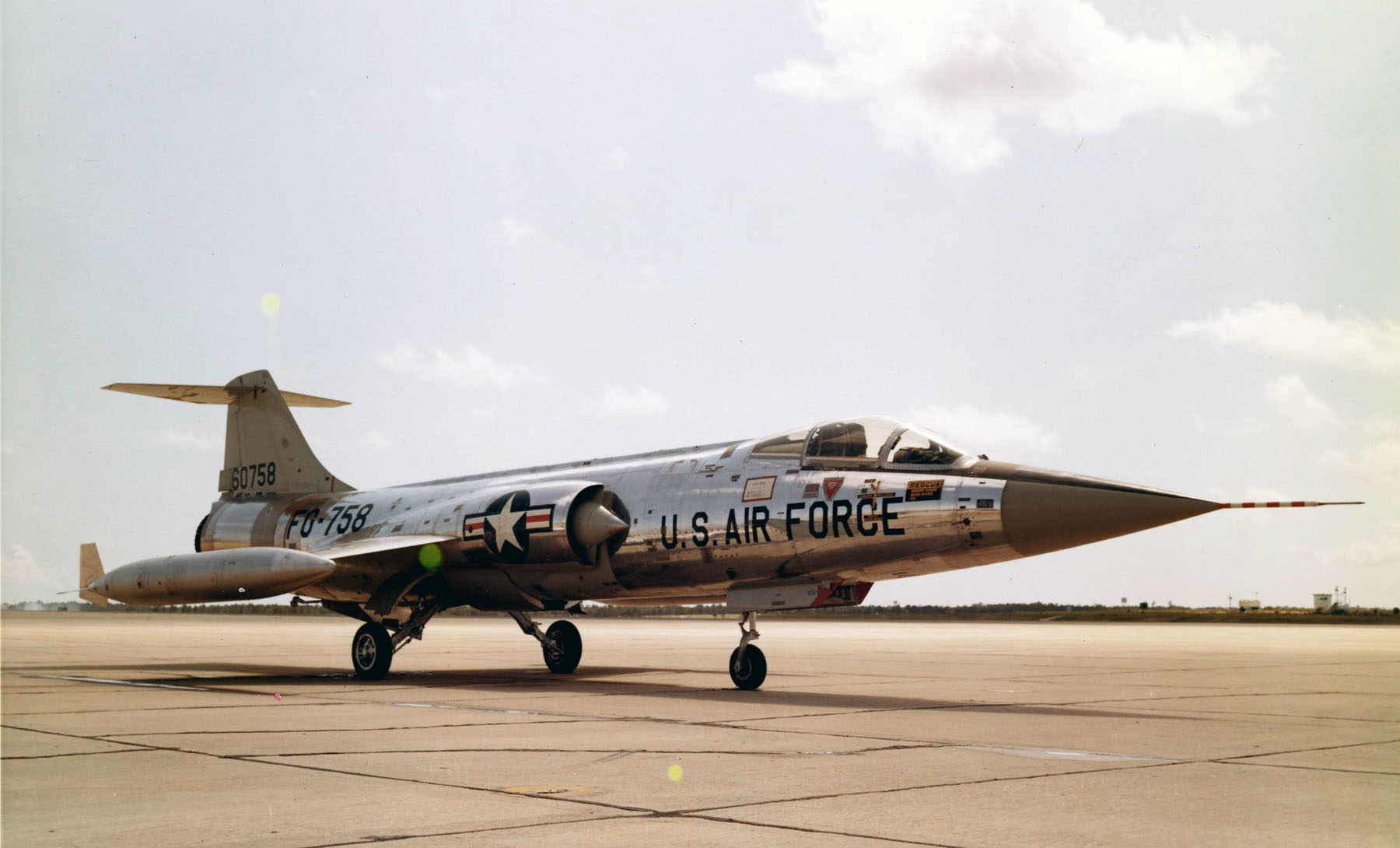 Lockheed F-104A-10-LO (SN 56-0758)